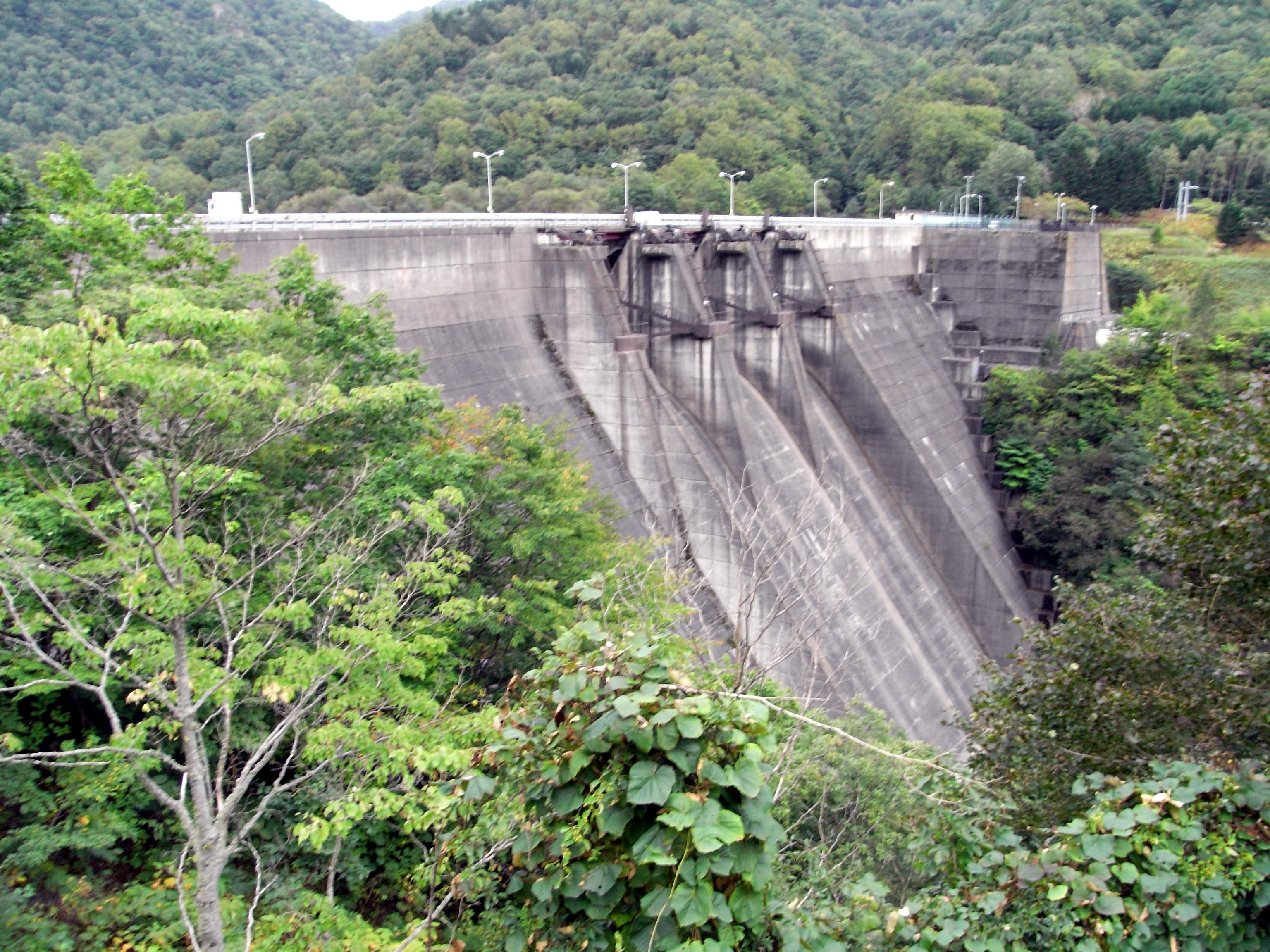 Shizunai Dam(Shizunai River/Hokkaido/Japan)